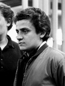 Irina Press at the 1964 Olympics